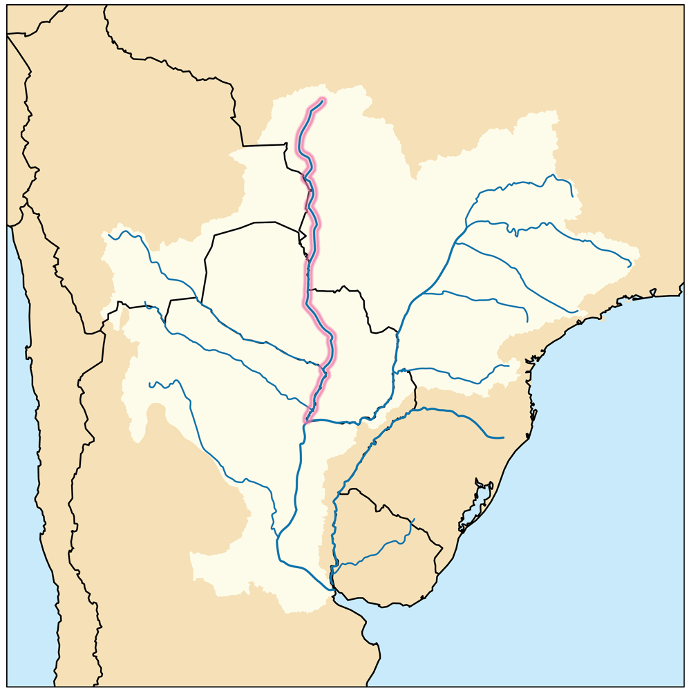 This is a map showing the Paraguay River highlighted within the Paraná River drainage basin.